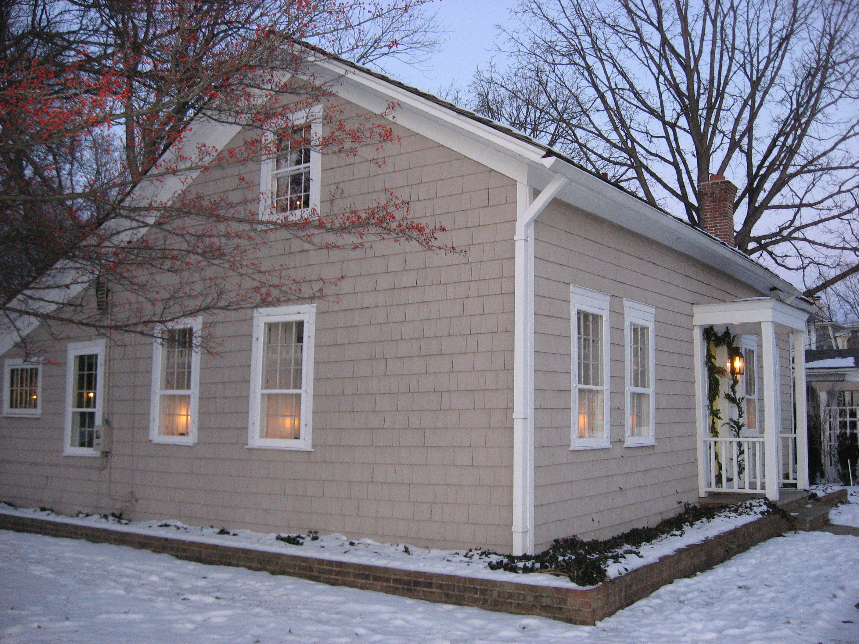 Front of the Gilbert House, located at 72 E. Granville Road (State Route 161) in Worthington, Ohio, United States. Built in 1825, it is listed on the National Register of Historic Places, and it is a part of a Register-listed historic district, the Worthington Historic District.